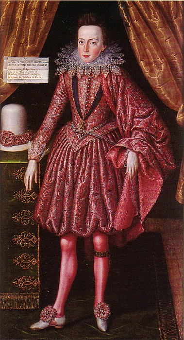 Prince Charles, the future Charles I